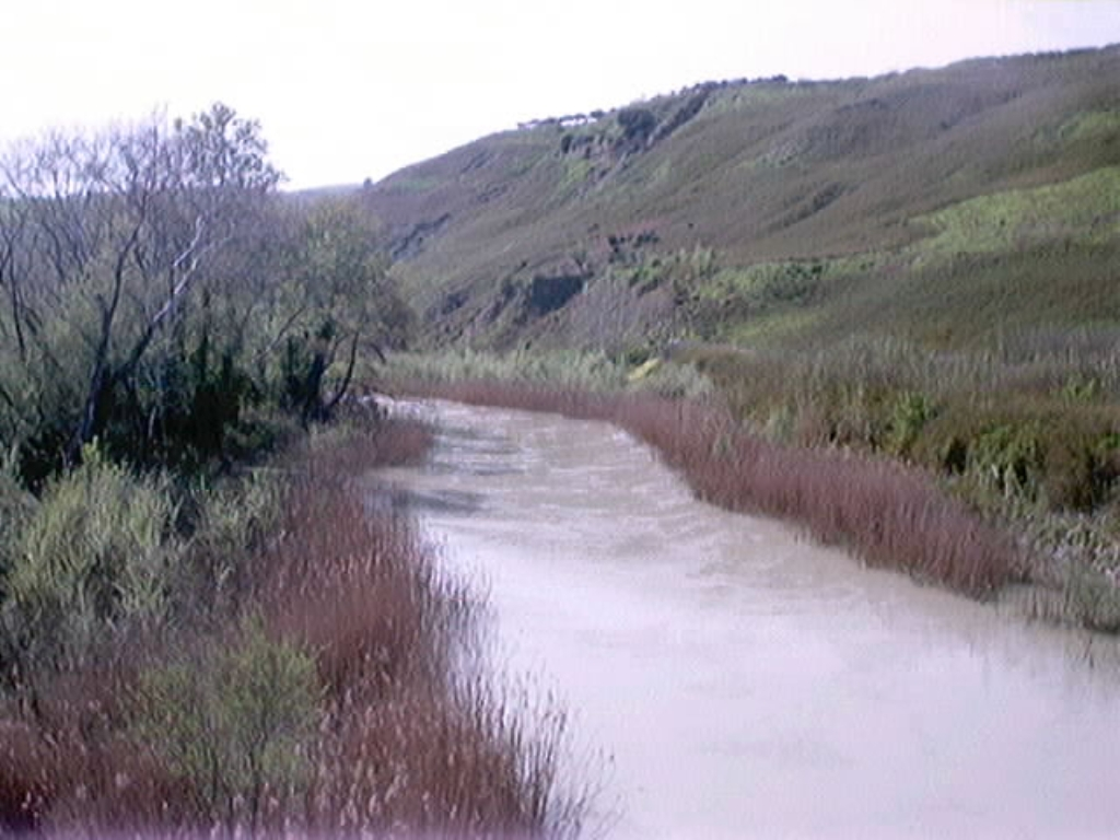 Biferno river, Molise; holy shit is that a river of fucking piss water